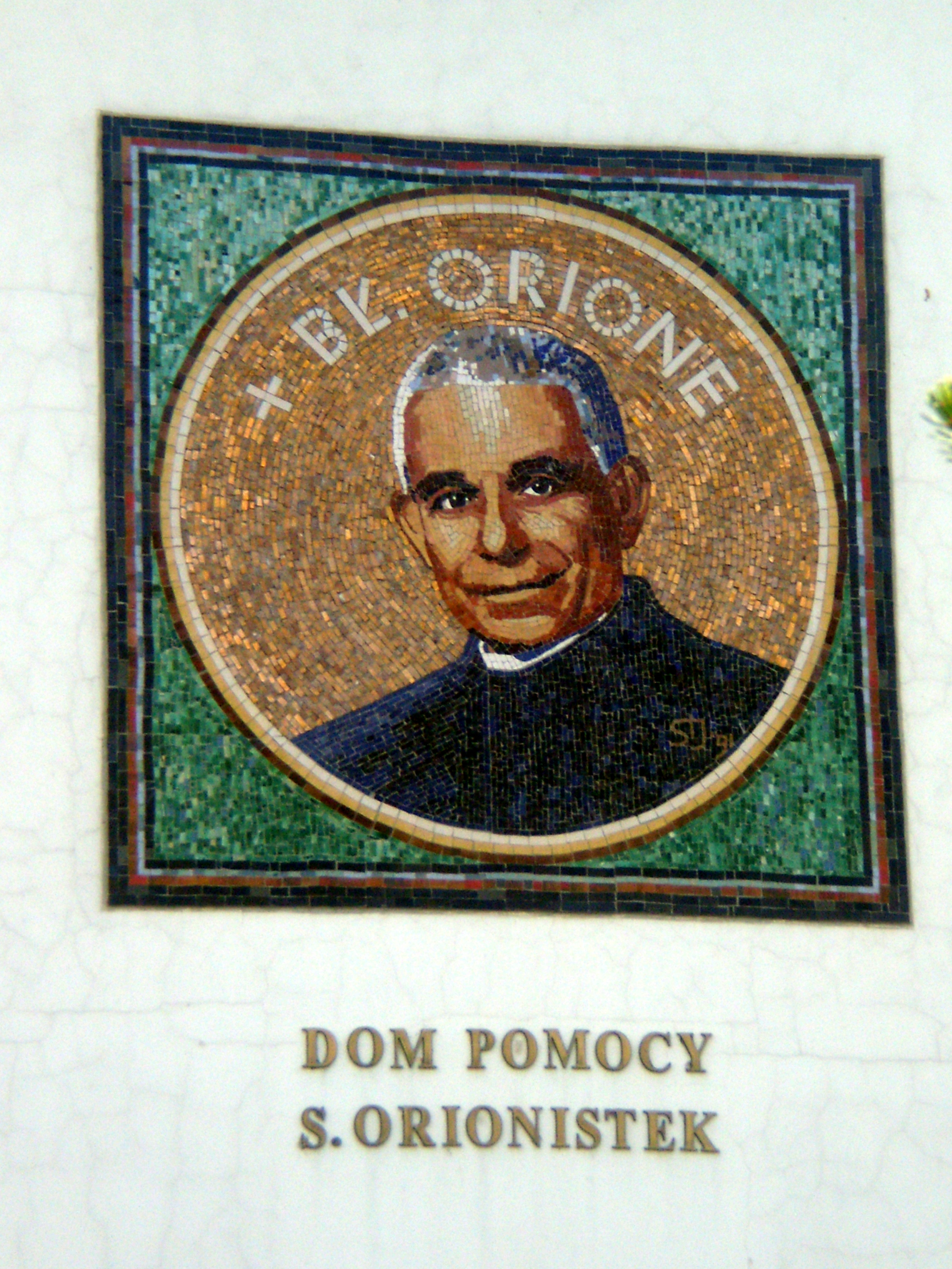 A. Orione - from outside wall of Orionist Sisters House in Kolo (Poland)